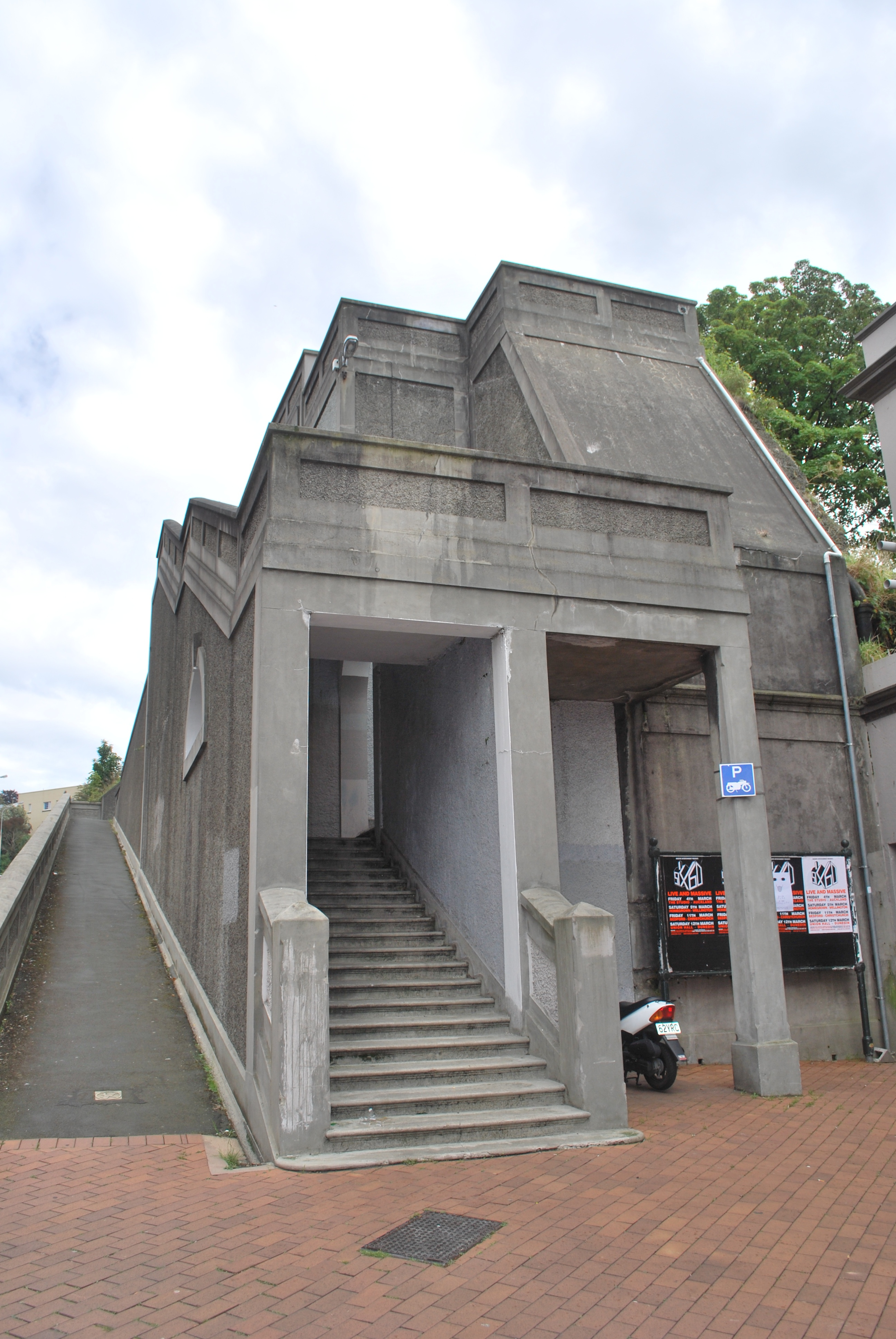 Dowling Street Steps, public stairs in Dunedin, New Zealand. New Zealand Historic Places Trust Register number 2148.